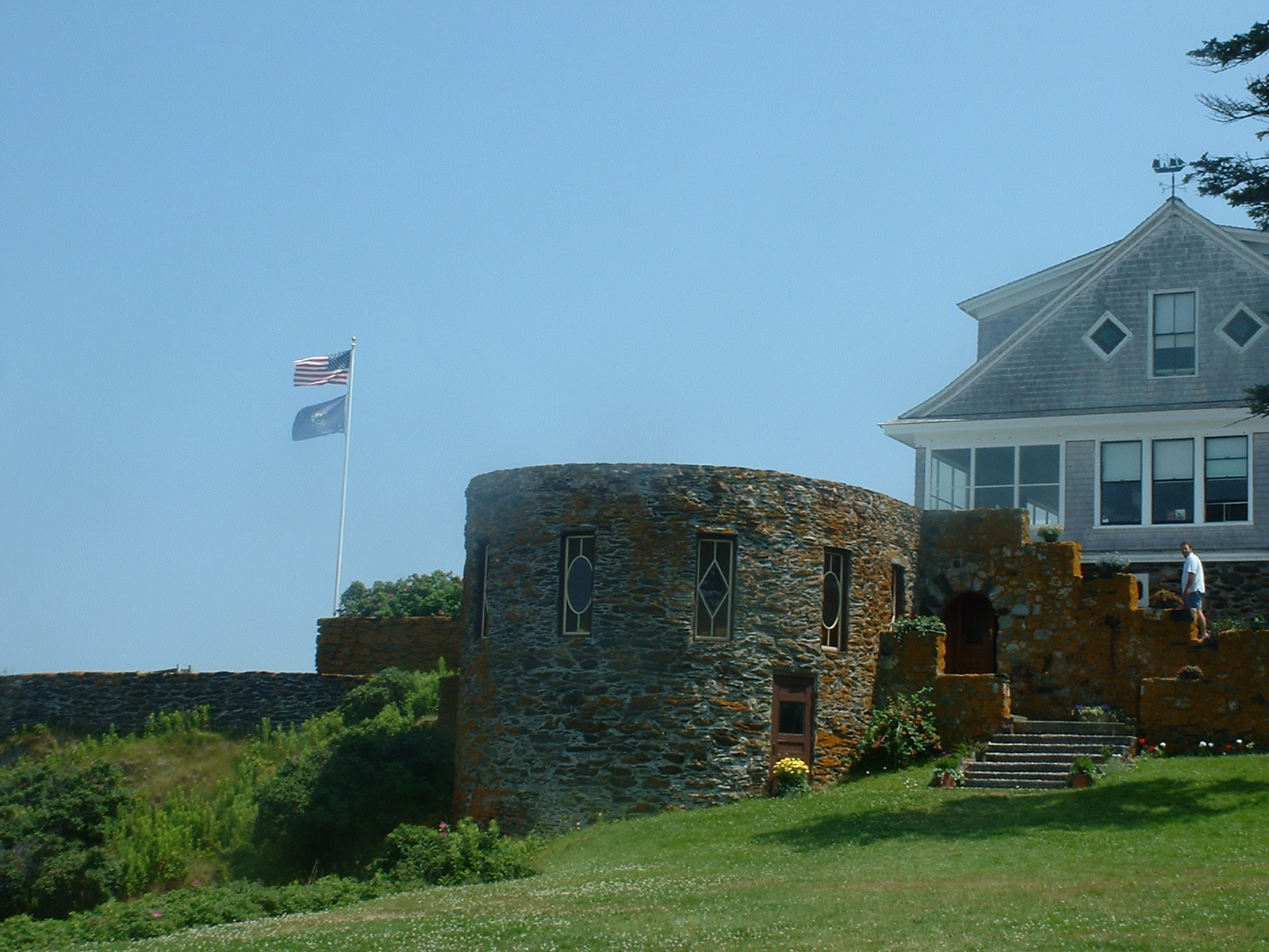 Admiral Peary's retirement home on Eagle Island, Maine